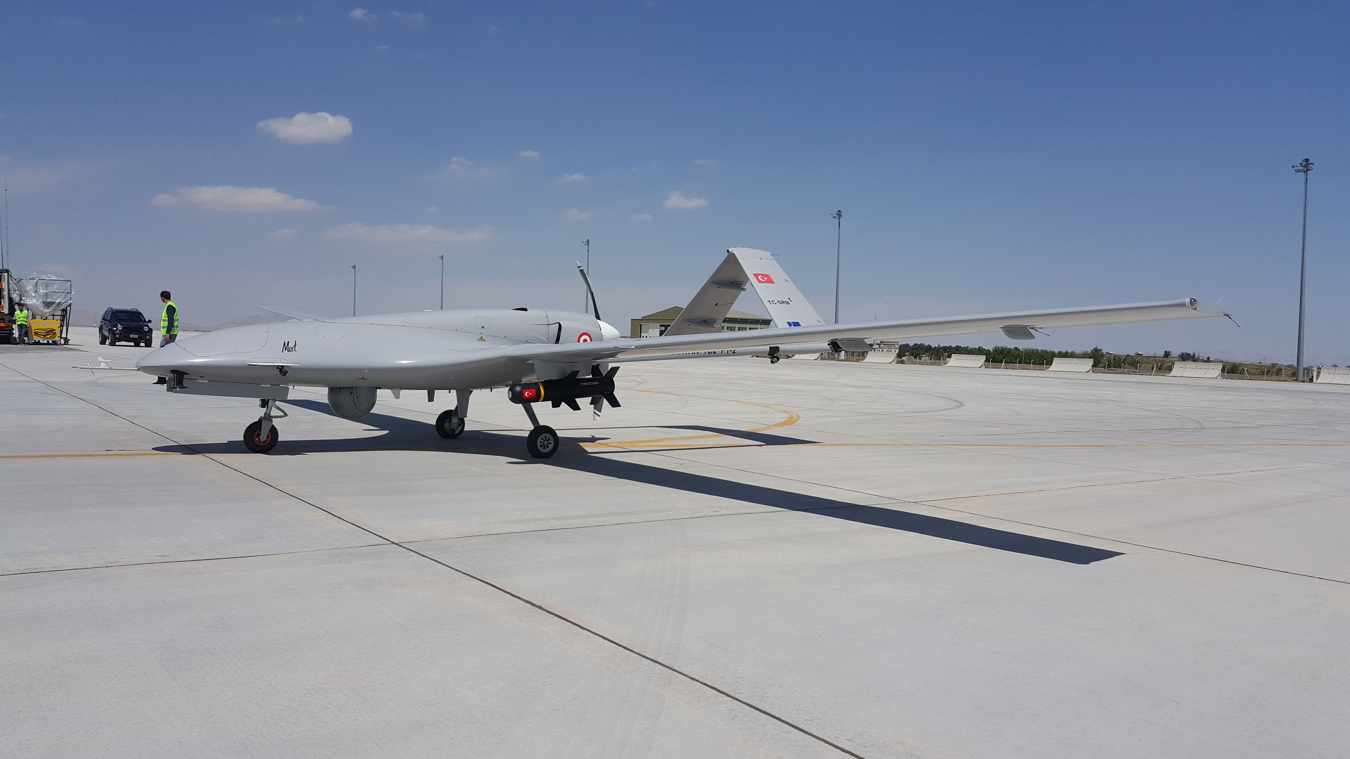 Bayraktar TB2 Ground